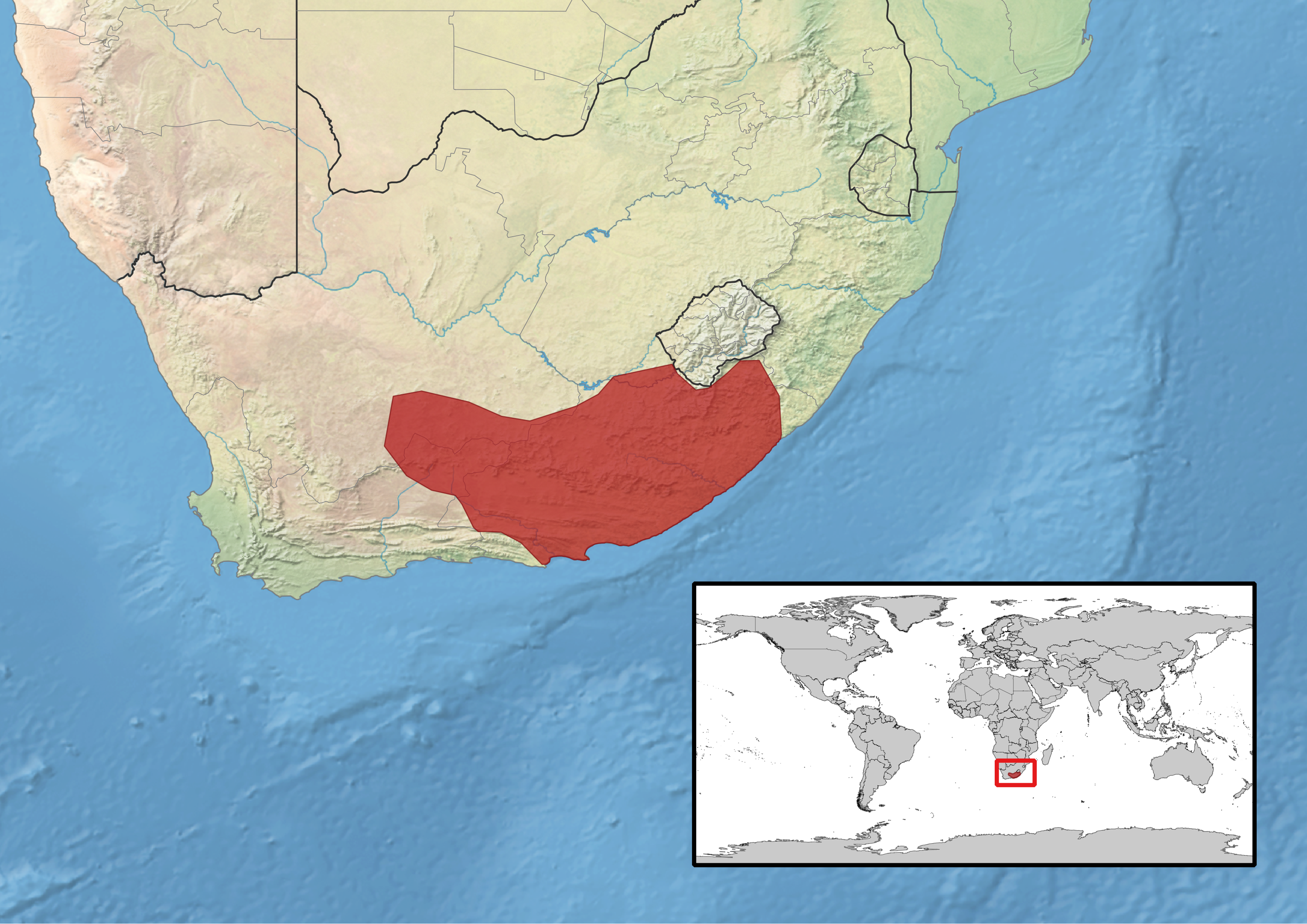 geographic distribution of Bradypodion ventrale (Native: South Africa (Eastern Cape Province, Free State))